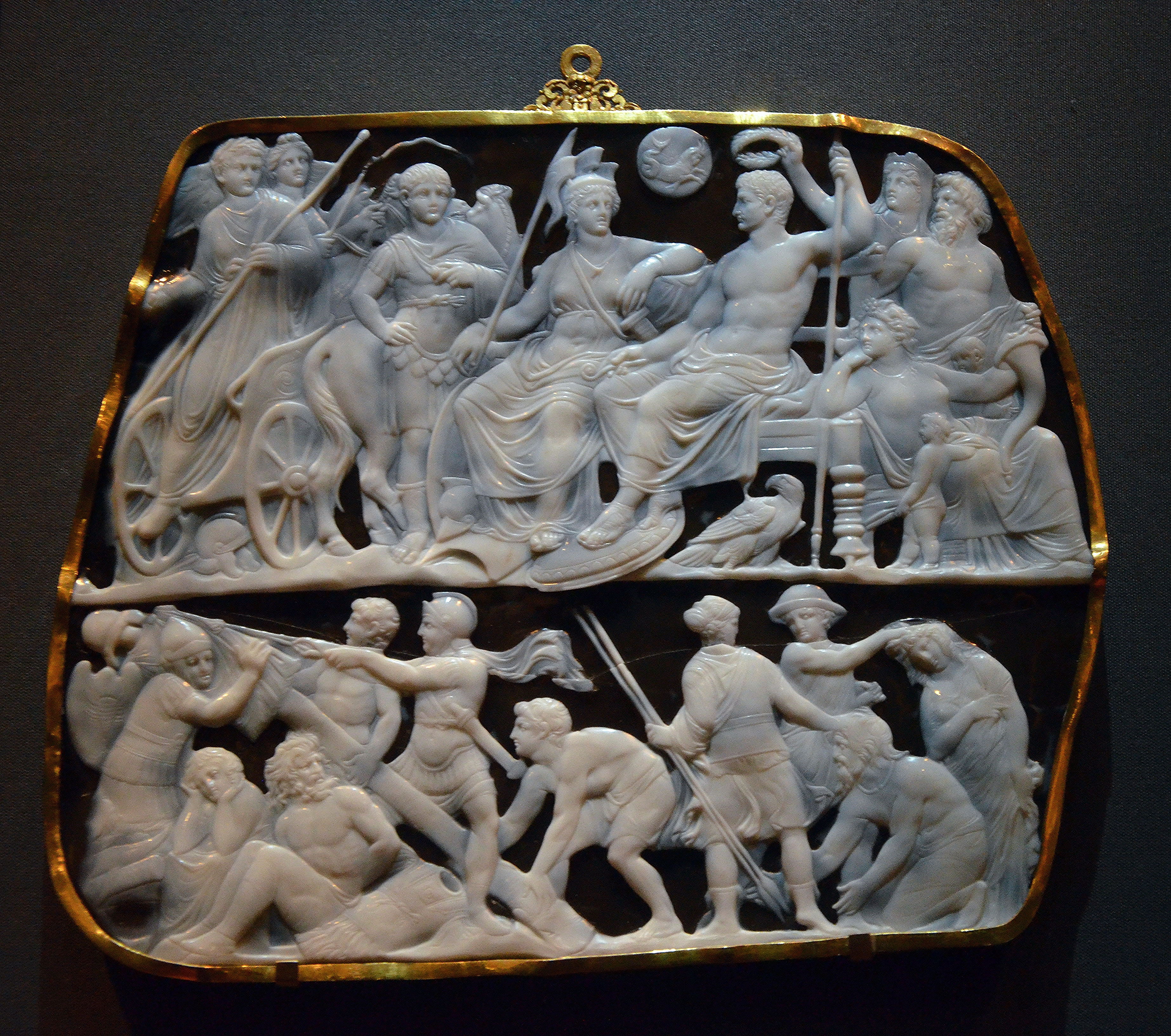 Two-Layered onyx. H: 19 cm. Setting: gold frame, reverse side in ornamented open-work; German, 17th century. AS Inv. No. IX A 79